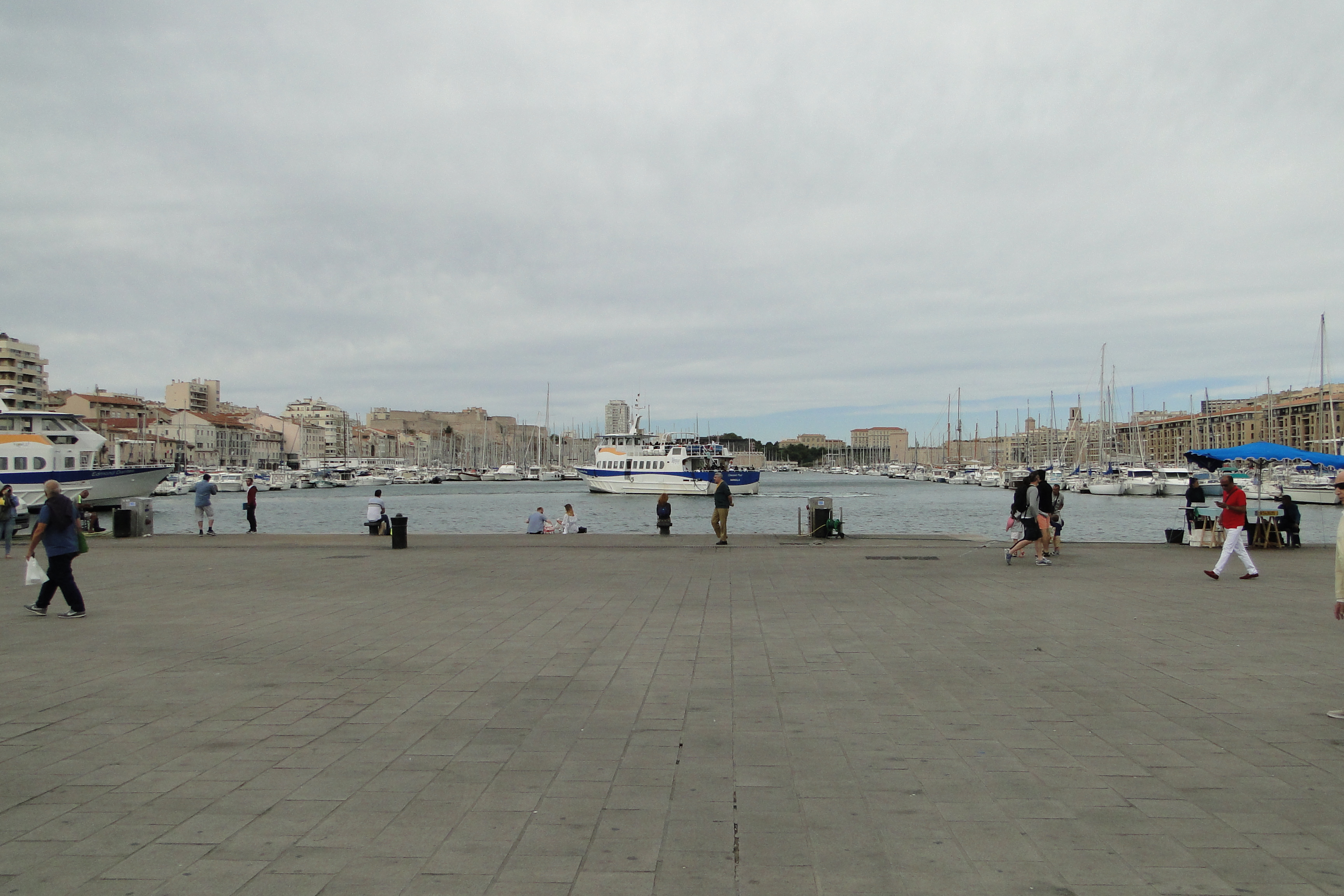 The Vieux Port as seen from Quai des Belges